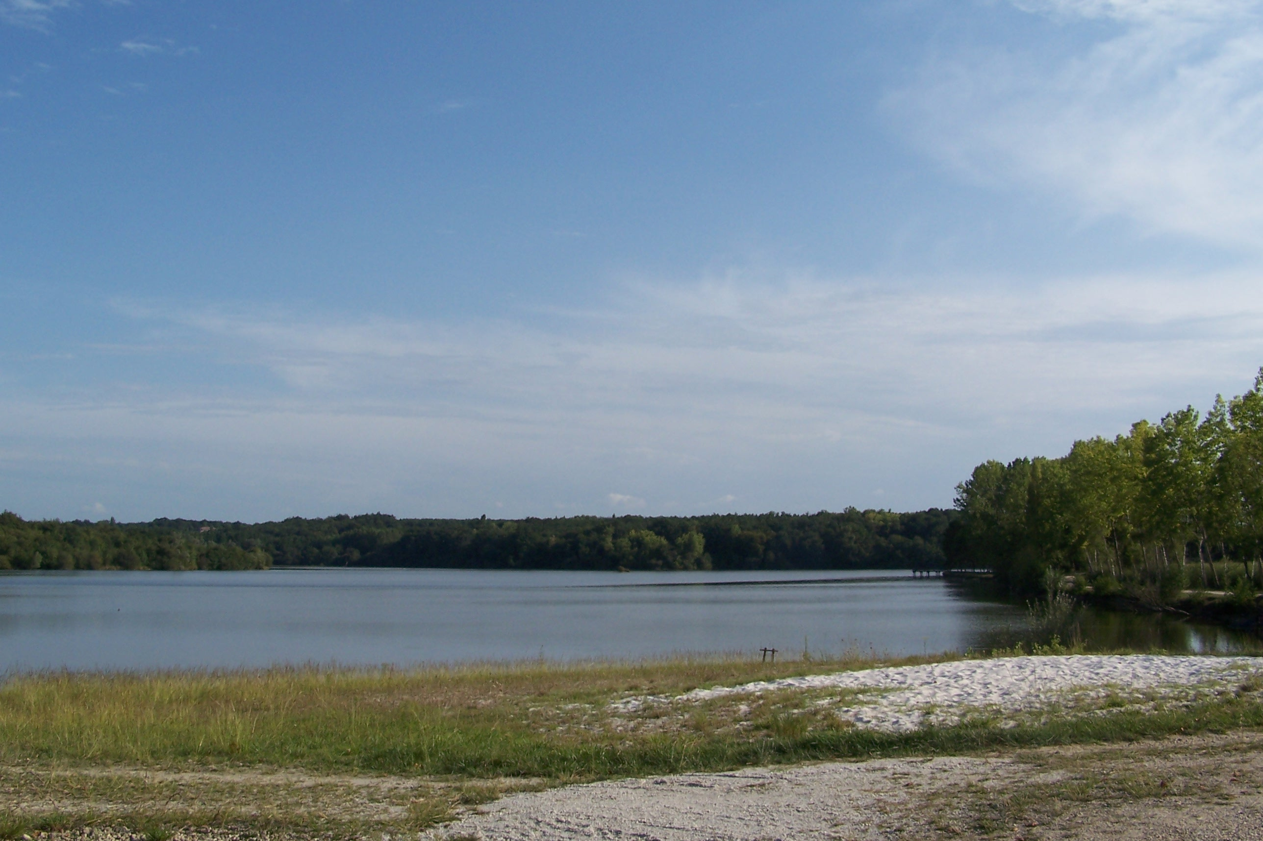 Lake of Bazas (Gironde, France)